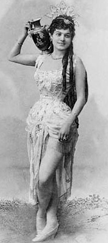 Ilka Palmay as Serpolette (Les cloches de Corneville) (mislabelled Rip Van Winkle) in 1883; probably in Hungary or Berlin.